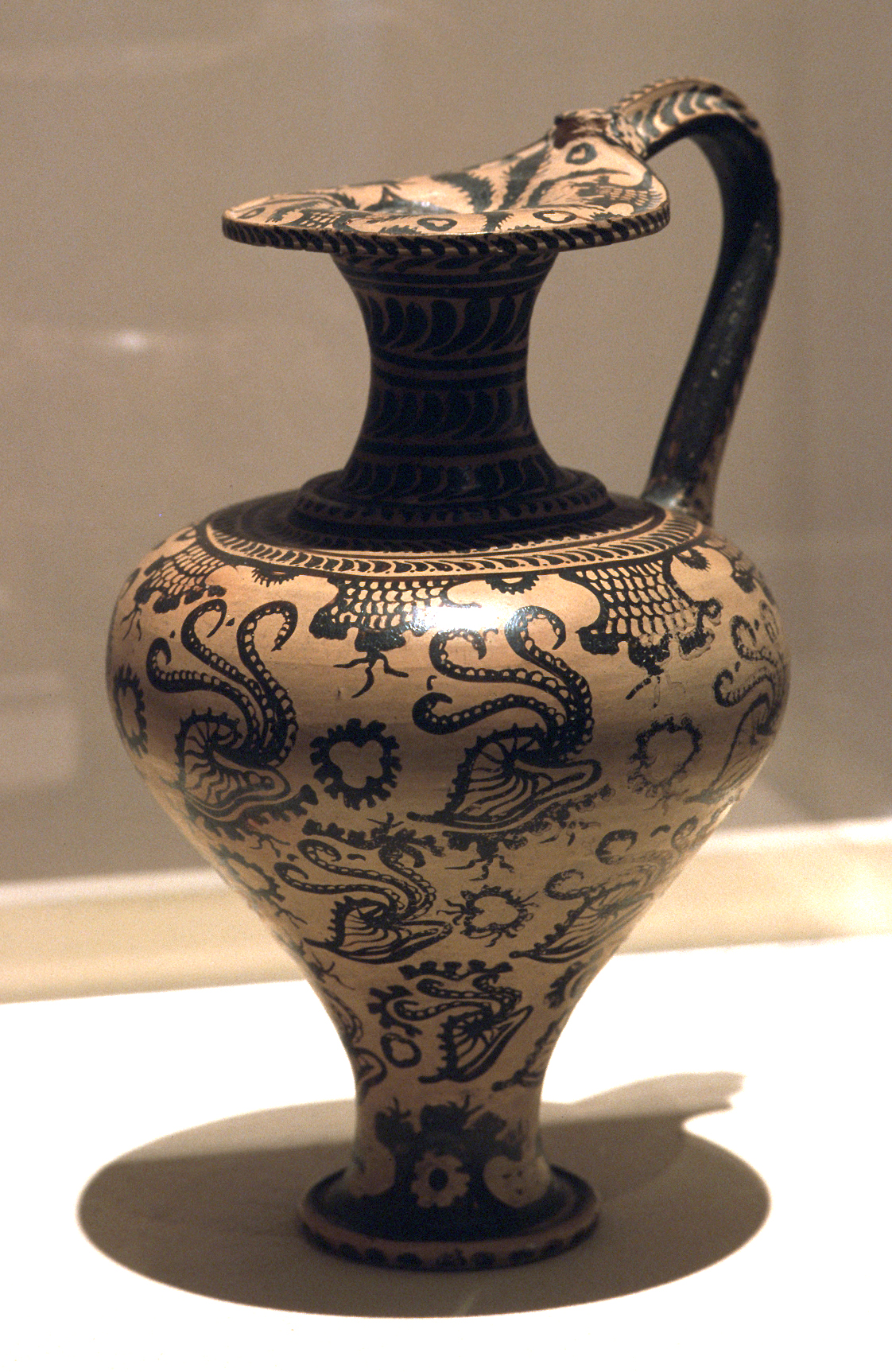 Minoan Ceramic, Can, marine style